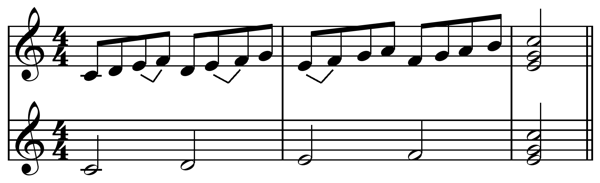 Sequence ascending by step, diatonic. Semitones marked. Created by Hyacinth (talk) 01:14, 16 August 2009 using Sibelius 5.